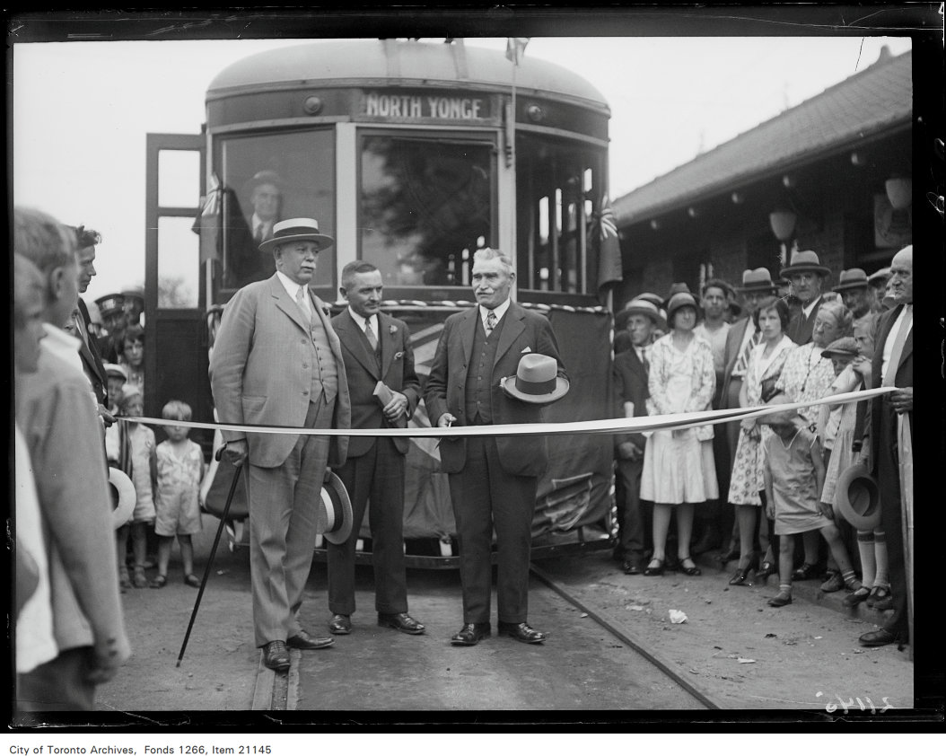 North Yonge Railways tape cutting ceremony, July 18, 1930.